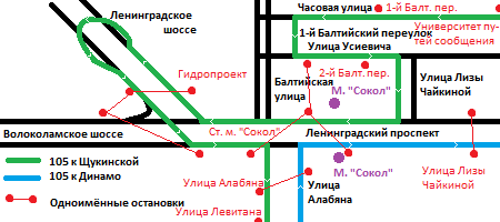 This was a route of bus 105 in Moscow some tunnels were opened